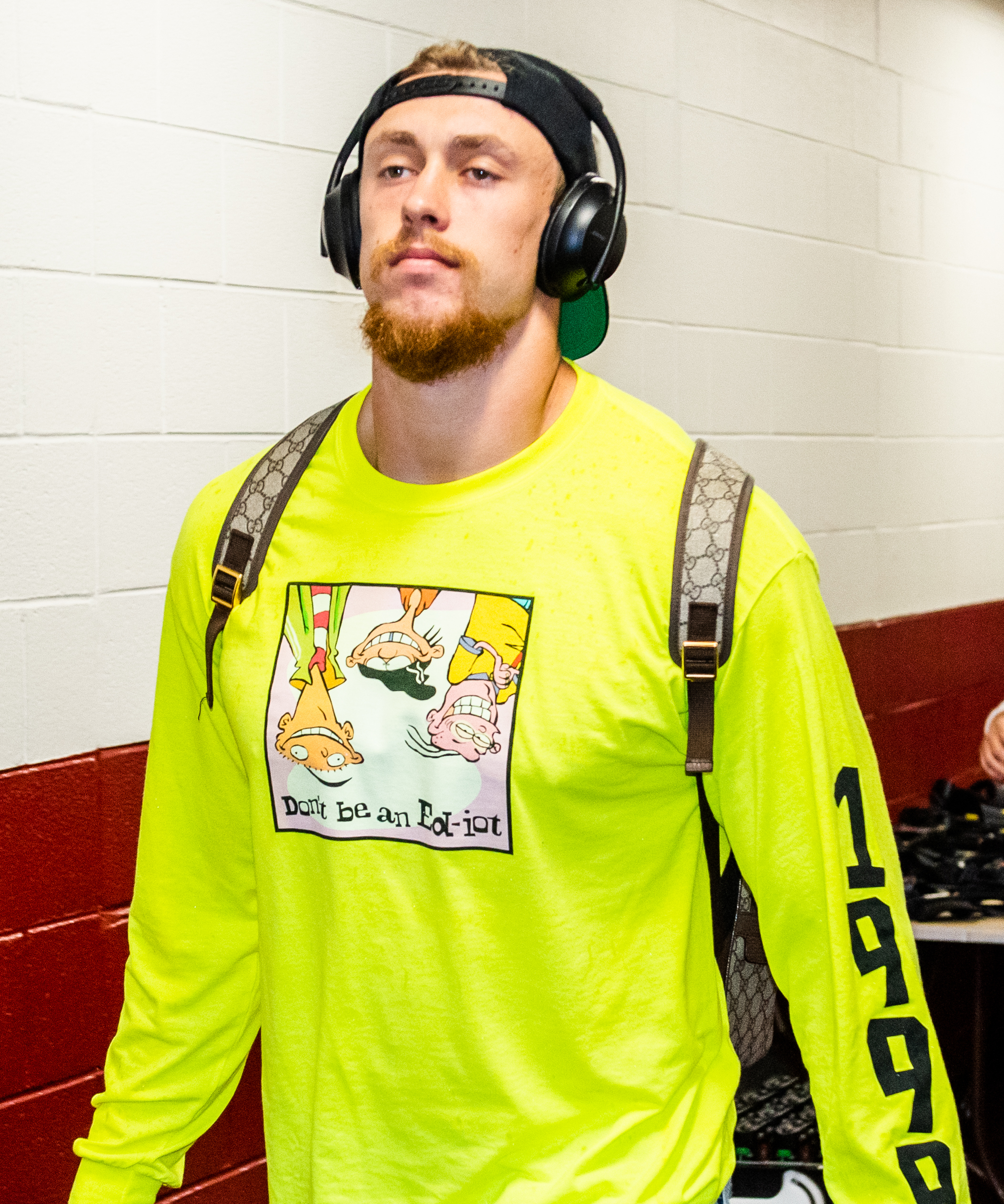 In 2019